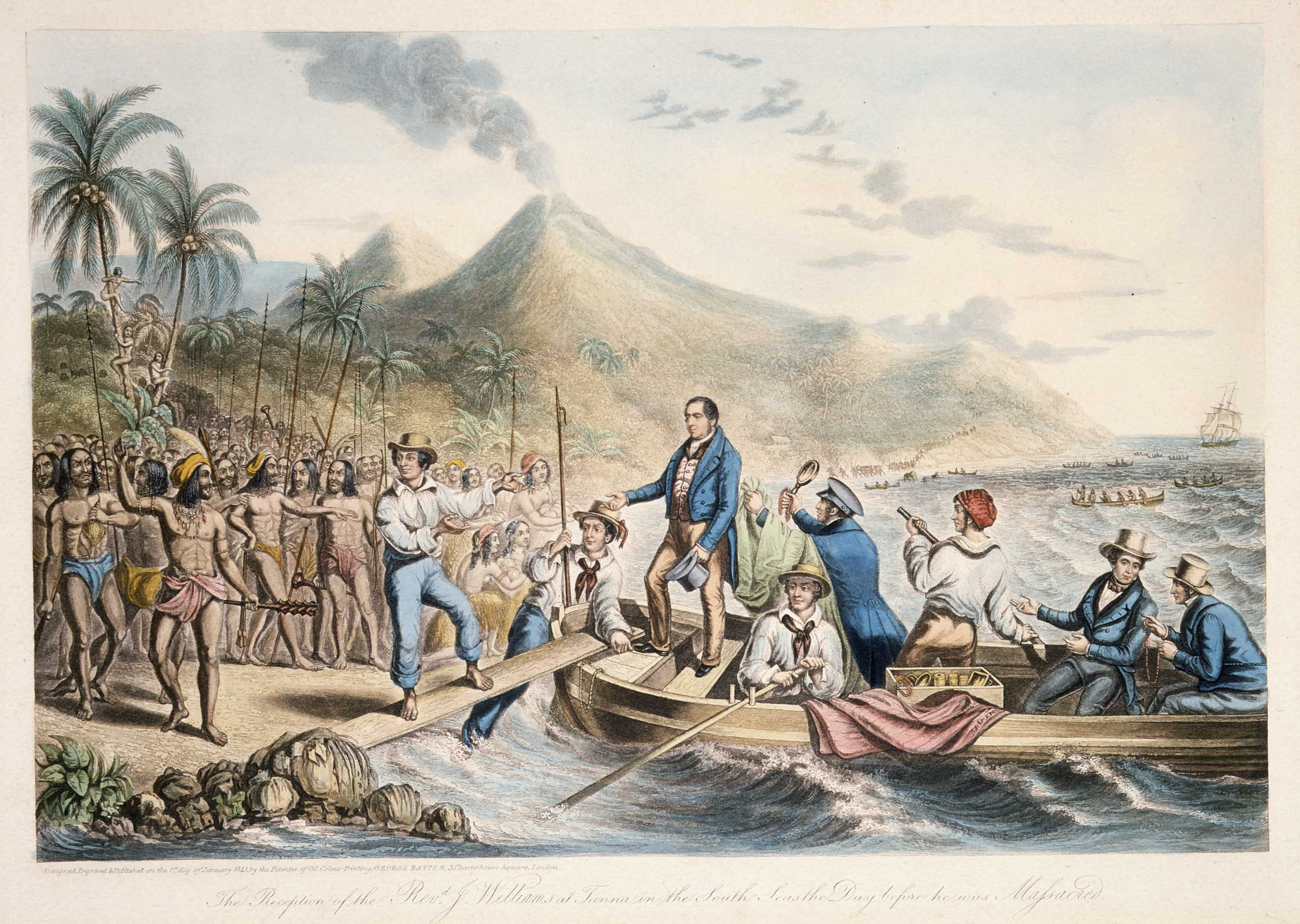 The Reception of the Rev. J. Williams, at Tanna, in the South Seas, the Day Before He Was Massacred. A palm-fringed Tanna island with a mountain in the rear, in the colonial New Hebrides. The Rev. John Williams is stepping from a rowboat, surrounded by other Europeans, about to go ashore. On shore is a crowd of Vanuatuans in 1839. Designed, engraved and published on the 1st day of January 1841, by the patentee of oil colour printing, George Baxter... London. 1 colour art print(s) Hand-coloured engraving 220 x 320 mm. Single art work. Reference Number: B-088-015.